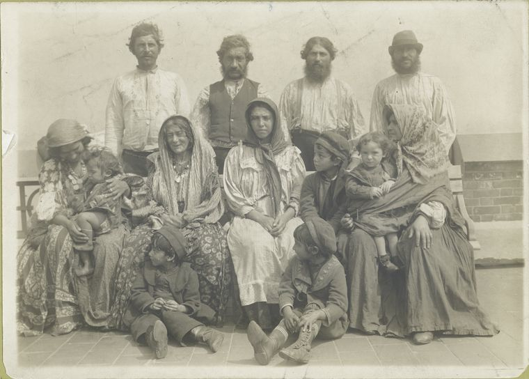 Group photograph captioned 'Hungarian Gypsies all of whom were deported' in The New York Times, Sunday Feb. 12, 1905